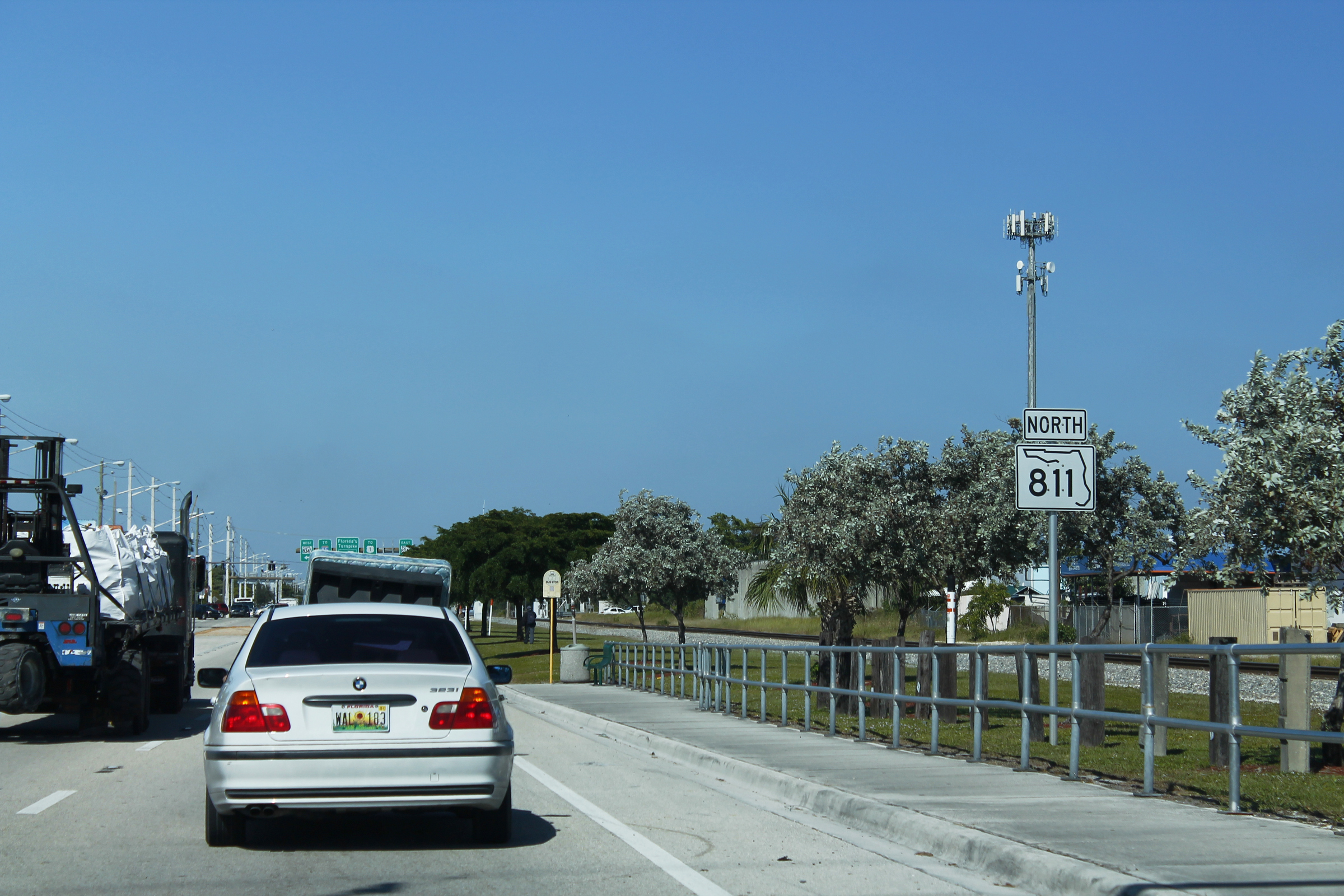 FL 811 Sign - North of Copans Road